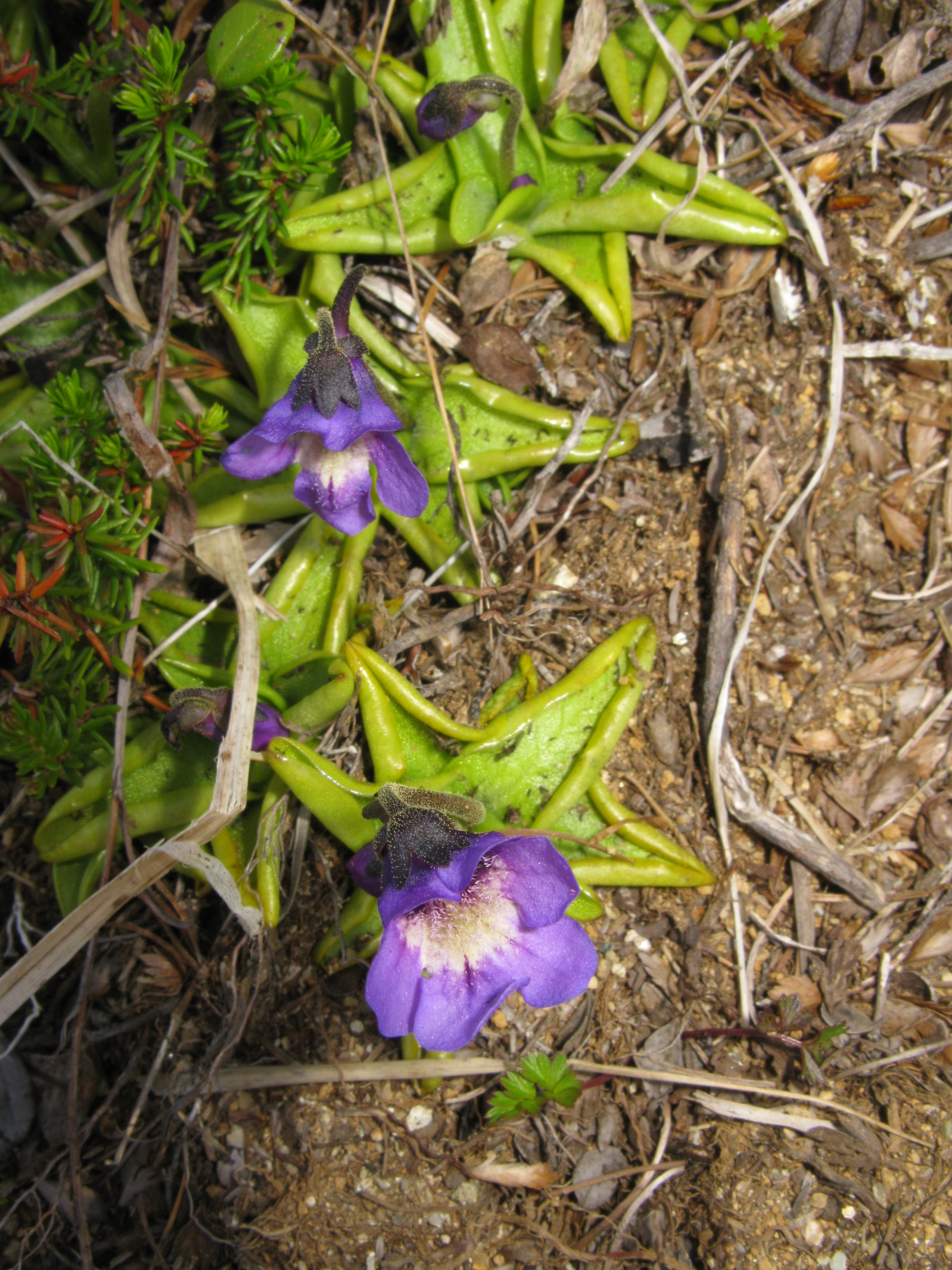 Pinguicula vulgaris, Mount Iide, Fukushima pref., Japan